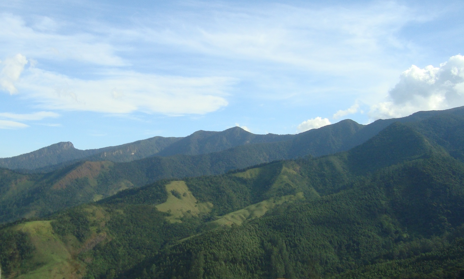 Mantiqueira Range in Piquete, São Paulo, Brazil